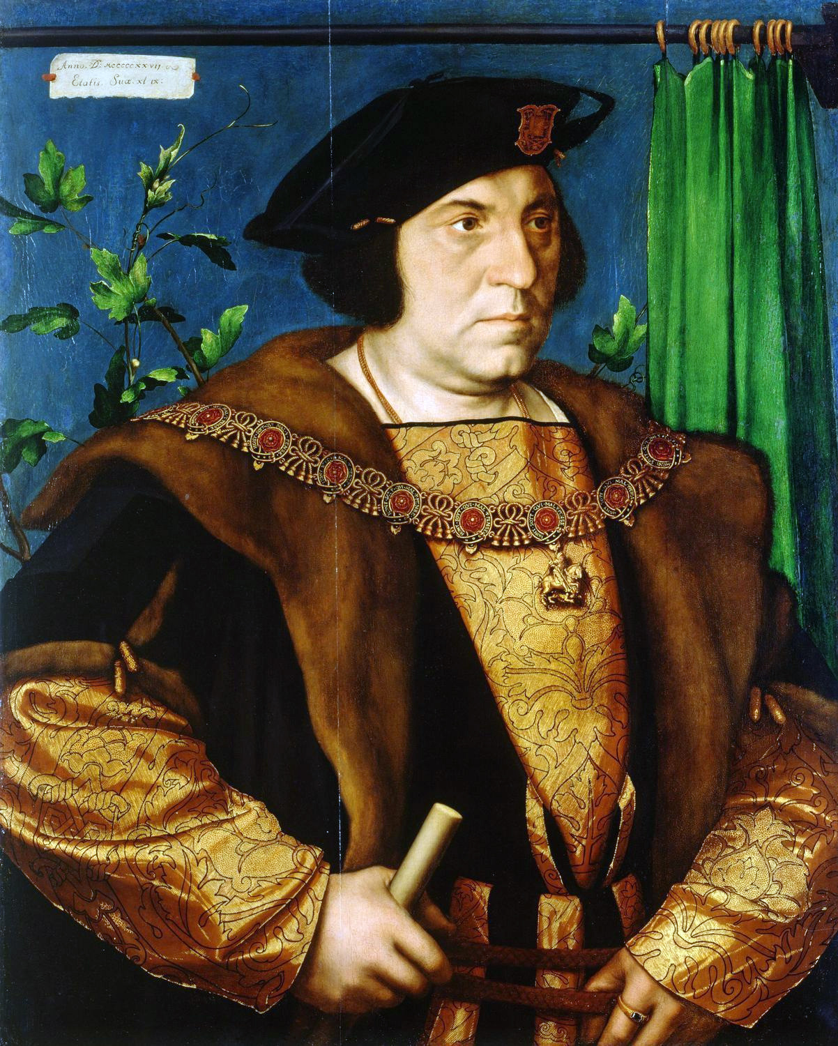 Portrait of Sir Thomas Guildford, one of a pair with the portrait of his wife, Mary, née Wotton.